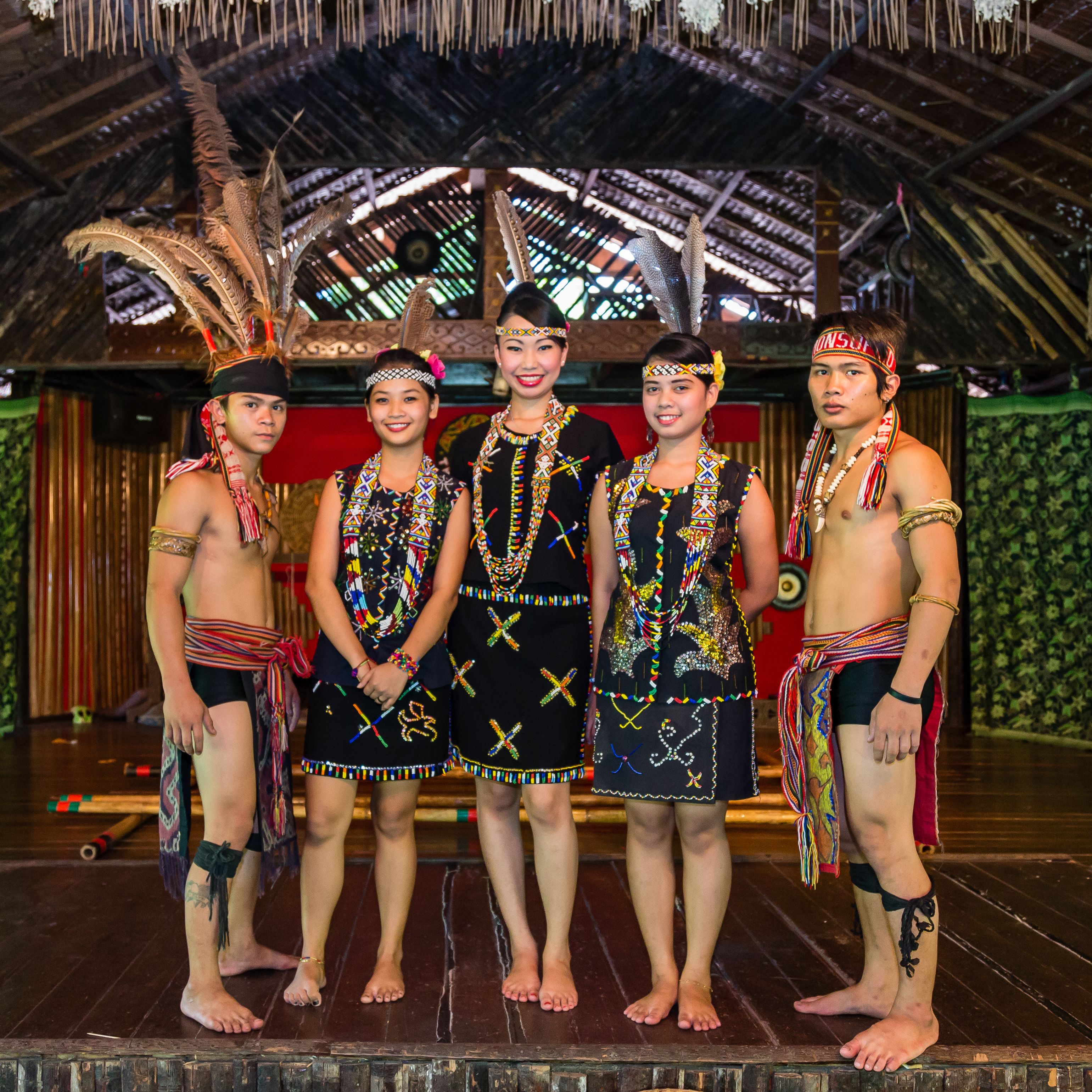 Kg. Kuai Kandazon, Penampang, Sabah: Members of Monsopiad Cultural Village during the performance of traditional danses